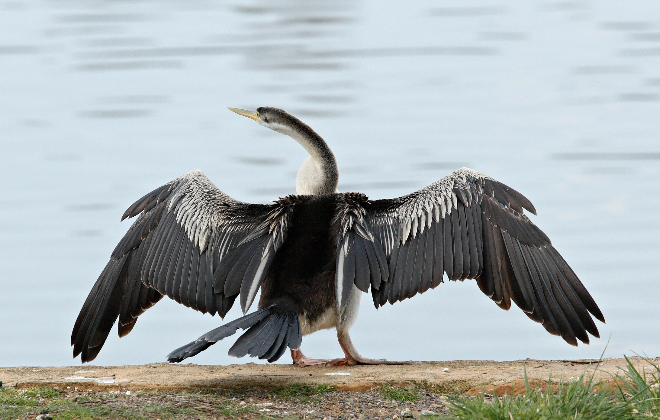 Anhinga novaehollandiae Darter drying its wings on the shore of Lake Burley Griffin, Canberra